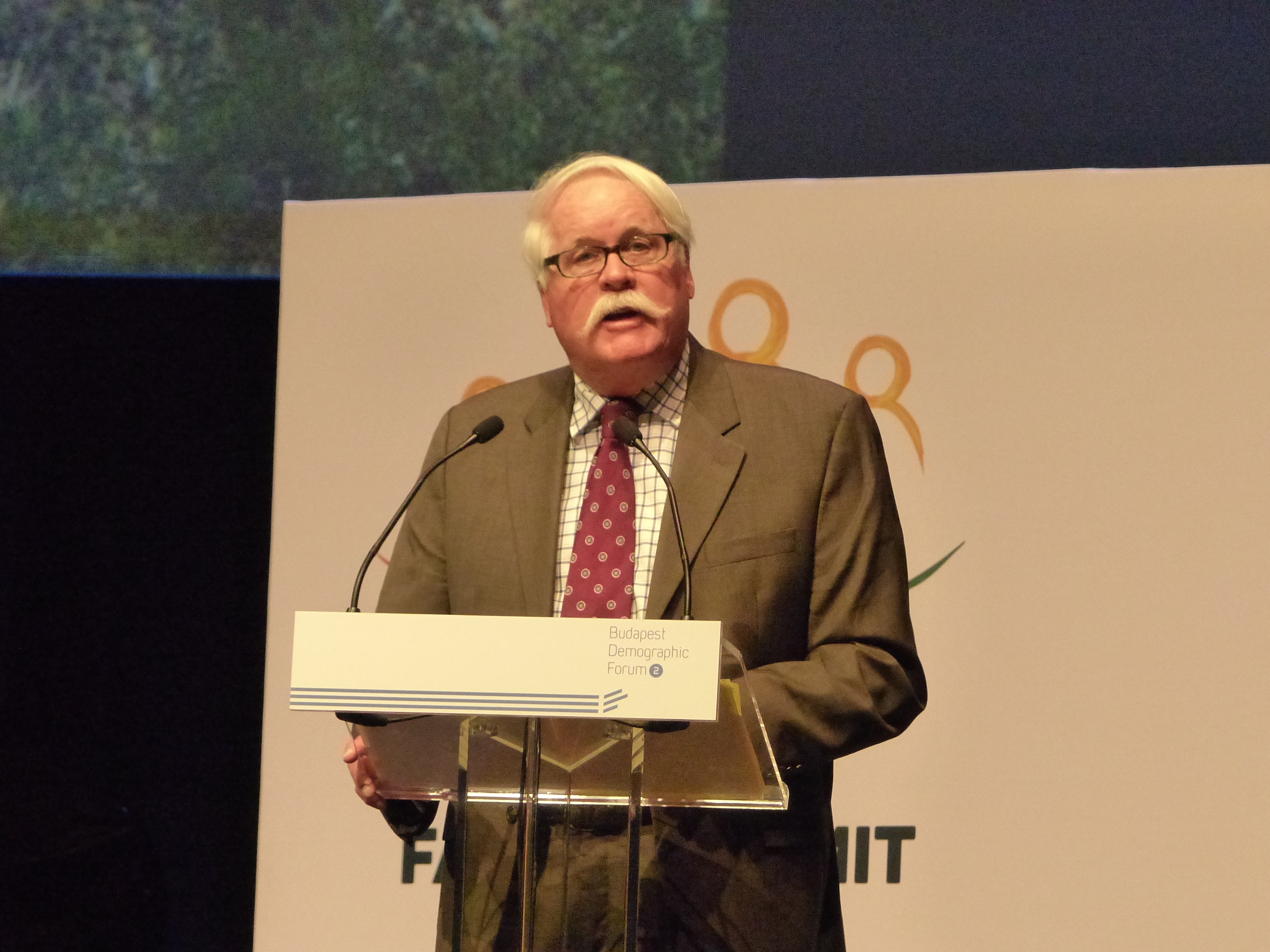 Taken on the 25th of May, 2017. Budapest Demographic Forum 2 Budapest, Kongresszusi Központ. (Budapest Family Summit 25 – 28 May 2017)